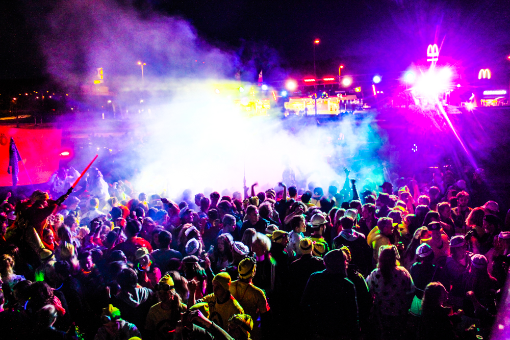 Discodancing at IKEA Kållereds parking during Lunds Tandem biking race 2015